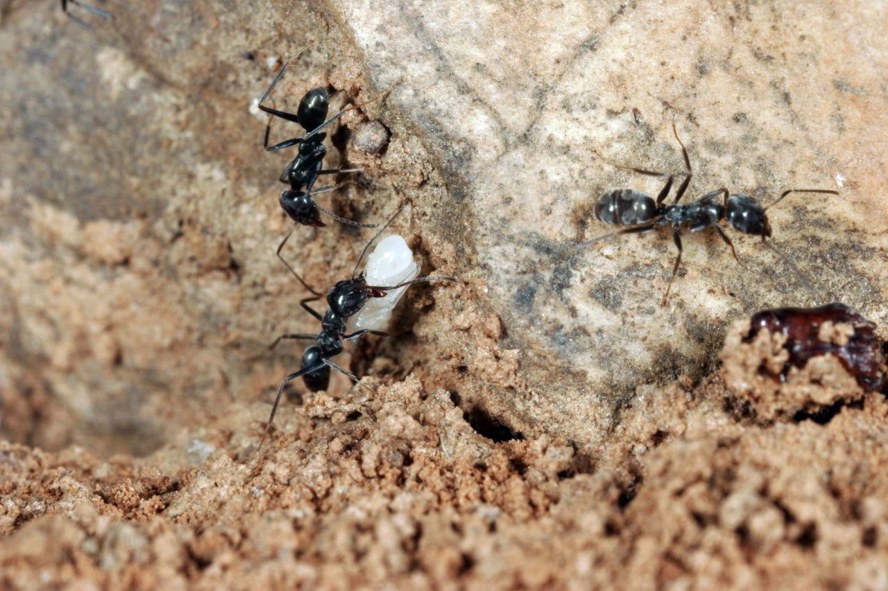 While most species of Iridomyrmex are aggressive, this species is quite timid, so much so that it started removing pupae from its nest to a "safer" location shortly after being discovered. Simply being near the nest, without any actual disturbance, was enough to cause this rather extreme reaction.